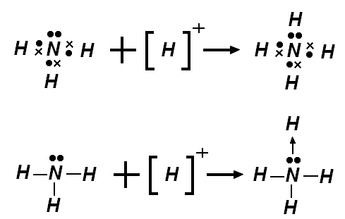 Made by Nonagonal Spider 30/4/07 on PhotoFiltre 6.0.2